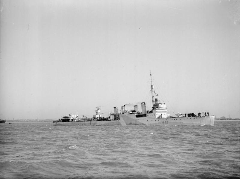 The Battle of the Atlantic 1939-1945 British Forces: HMS BROADWAY, a destroyer built in 1918. BROADWAY was one of the fifty American destroyers loaned to Britain in September 1940.